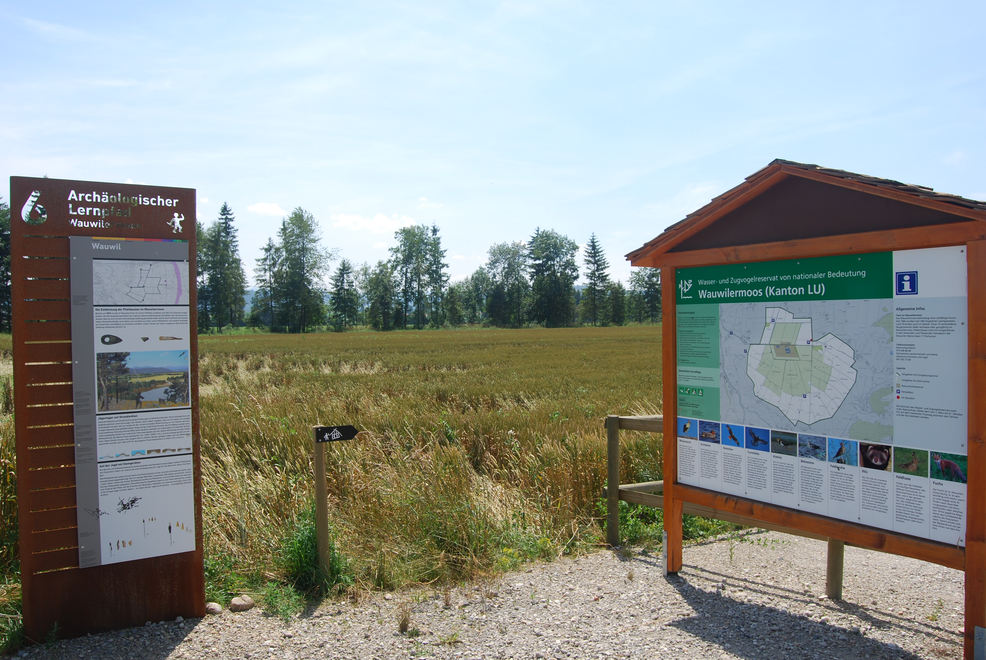 Wauwiler Moos, Wauwil, canton of Luzern, SwitzerlandEsperanto: Marĉo de Wauwil, Wauwil, Kantono Lucerno, Svislando